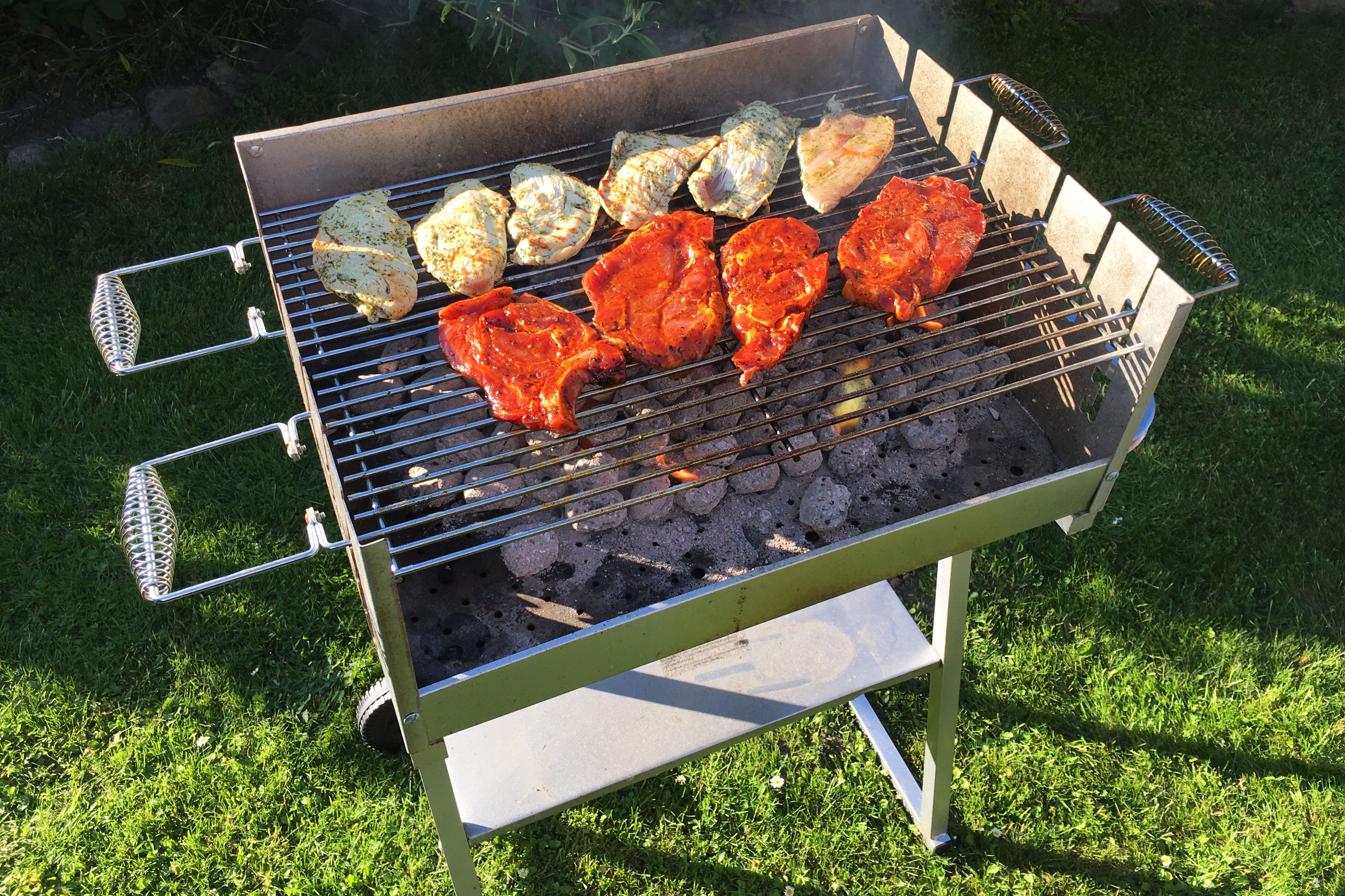 This is a BBQ picture.